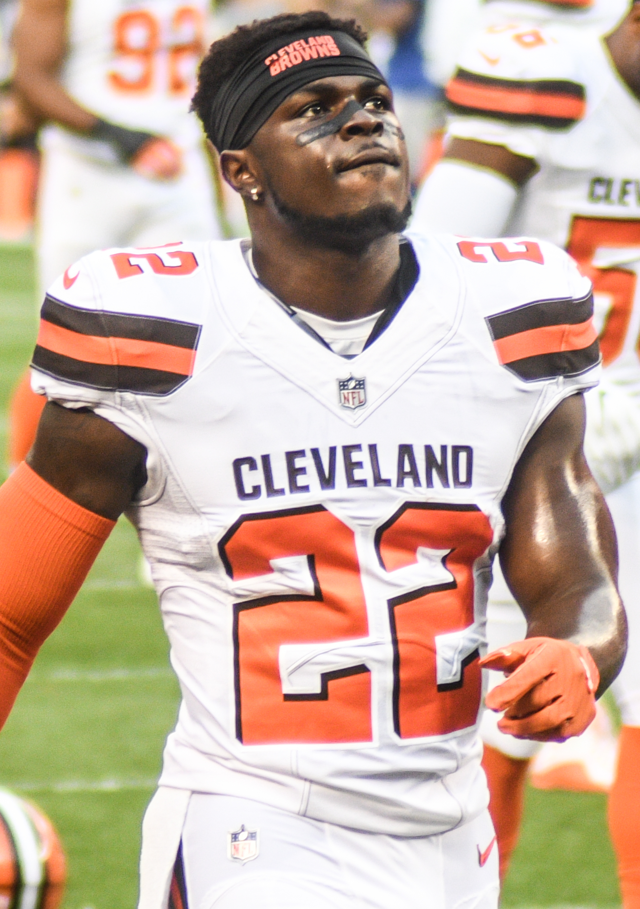 Cleveland Browns vs. New York Giants